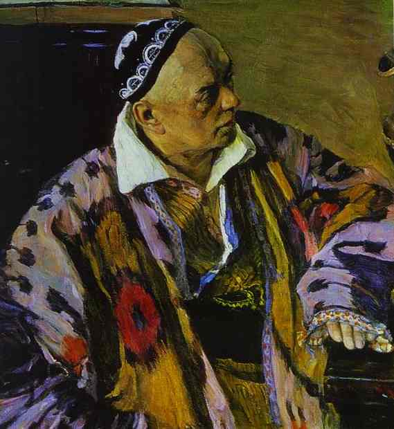 Russian architect, Alexey Shchusev